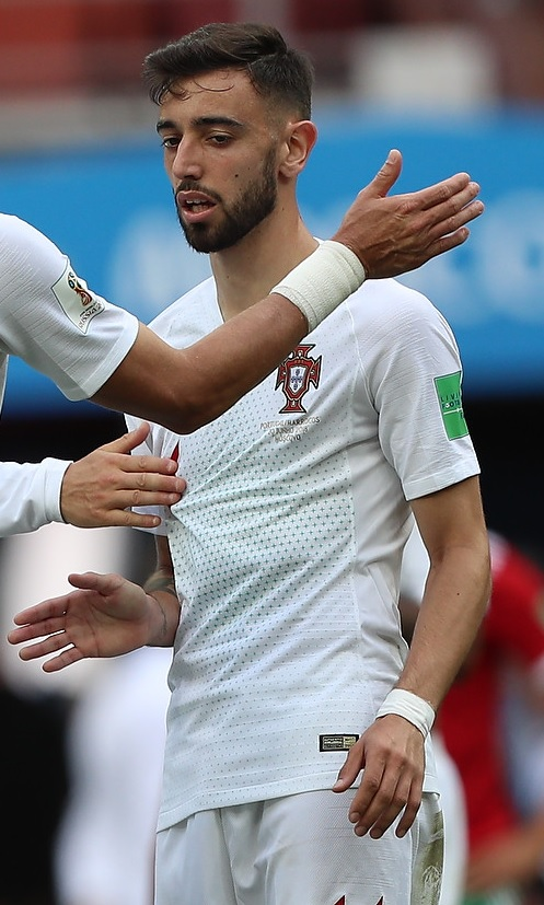 Bruno Fernandes with Portugal in the 2018 FIFA World Cup game against Morocco.